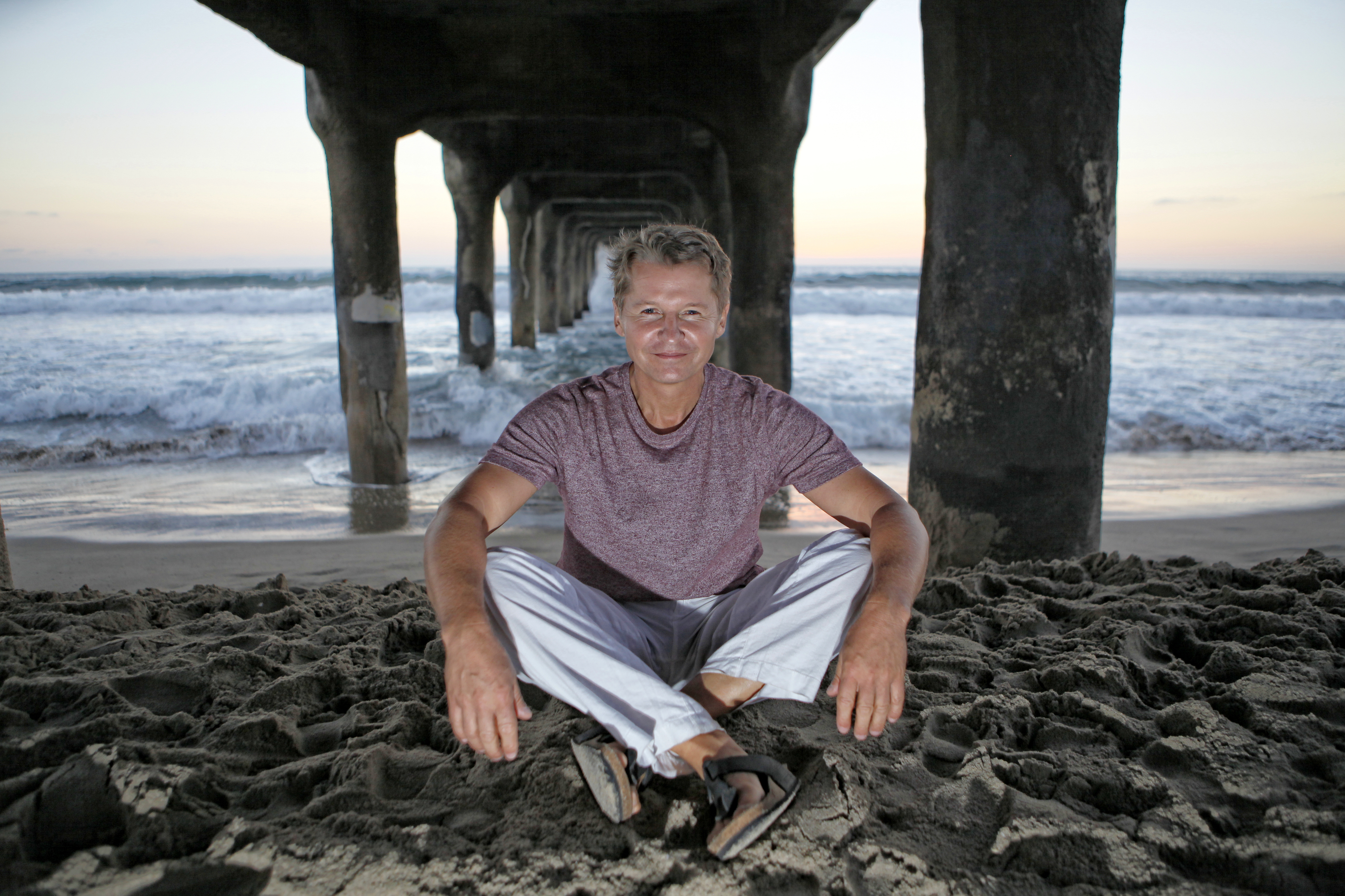 Alain Thebault